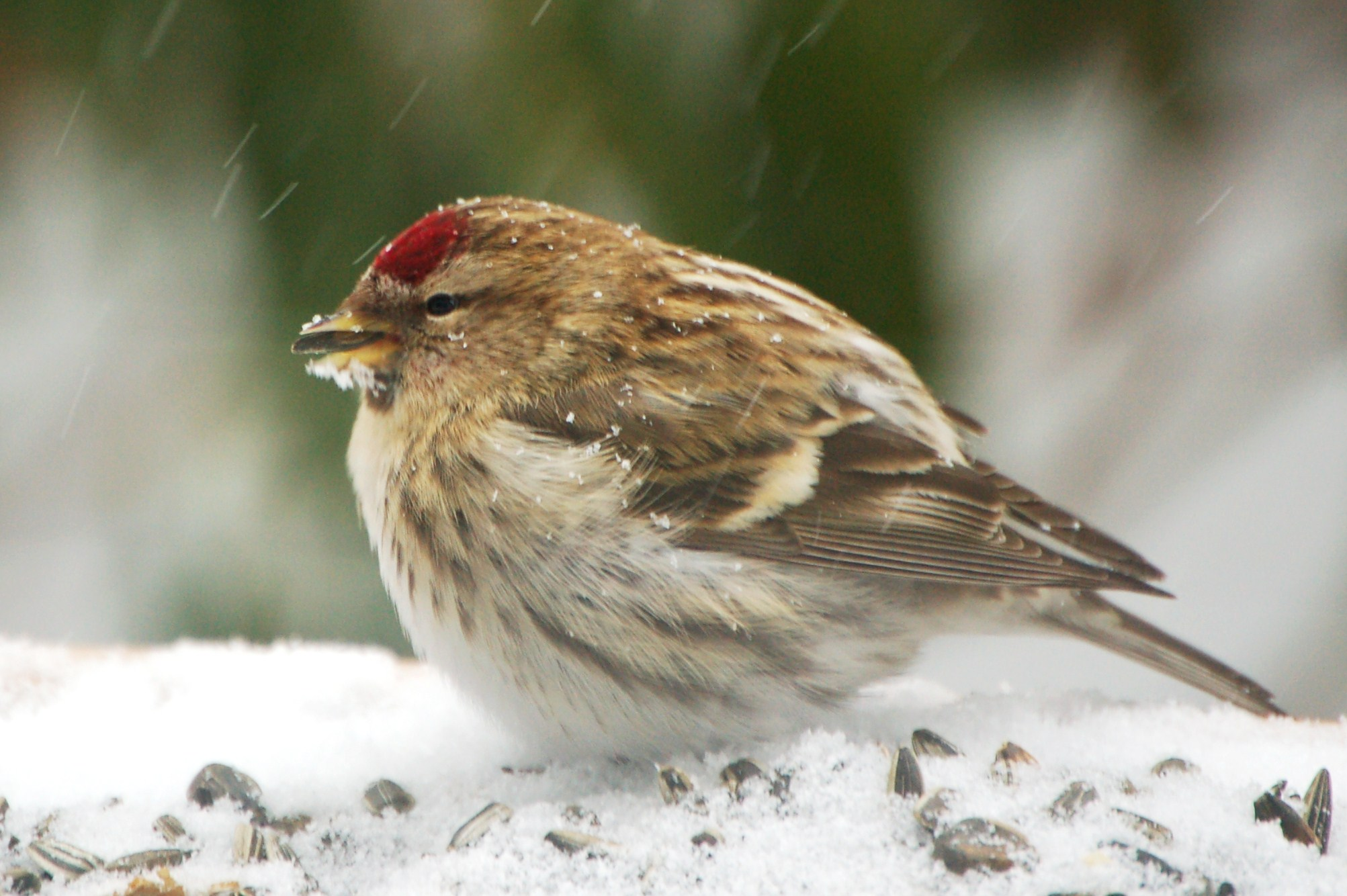 Common Redpoll Брезова скатия, Gråsisken, El pardillo sizerín, Sizerin flammé, Auðnutittlingur, Gli organetti, Čimčiakas, Zsezse, Barmsijs, ベニヒワ, Czeczotka[edytuj], Pintarroxo-de-queixo-preto, Чечётка, Чооруос, Stehlík čečetavý, Urpiainen, Gråsiska, Kuzey keten kuşu, 白腰朱顶雀